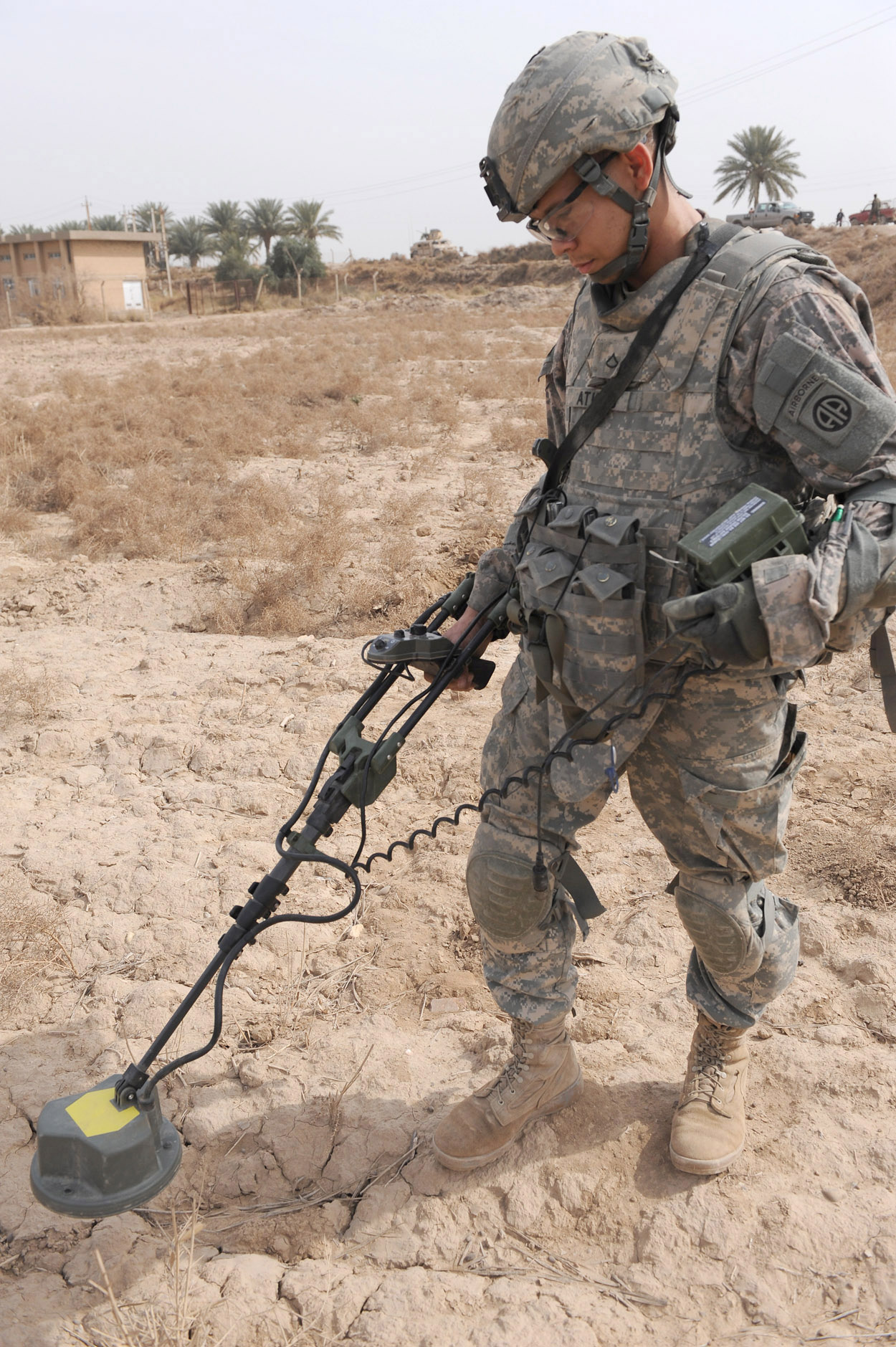 A Paratrooper assigned to Company A, 2nd Battalion, 505th Parachute Infantry Regiment, 3rd Brigade Combat Team, 82nd Airborne Division, Multi-National Division-Baghdad, uses a metal detector in search for weapons cache during Operation Doubleday Feb. 9 in the New Baghdad district of eastern Baghdad. The combined clearance operation was conducted over several miles in and around the New Baghdad district in order to clear and disrupt insurgent networks and weapons cache. See more at Army.mil